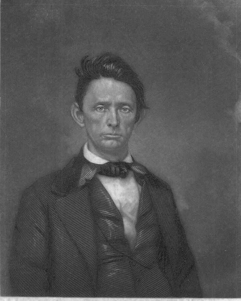 William Gannaway "Parson" Brownlow, frontispiece engraving from his book, The Great Iron Wheel Examined, published in 1856.